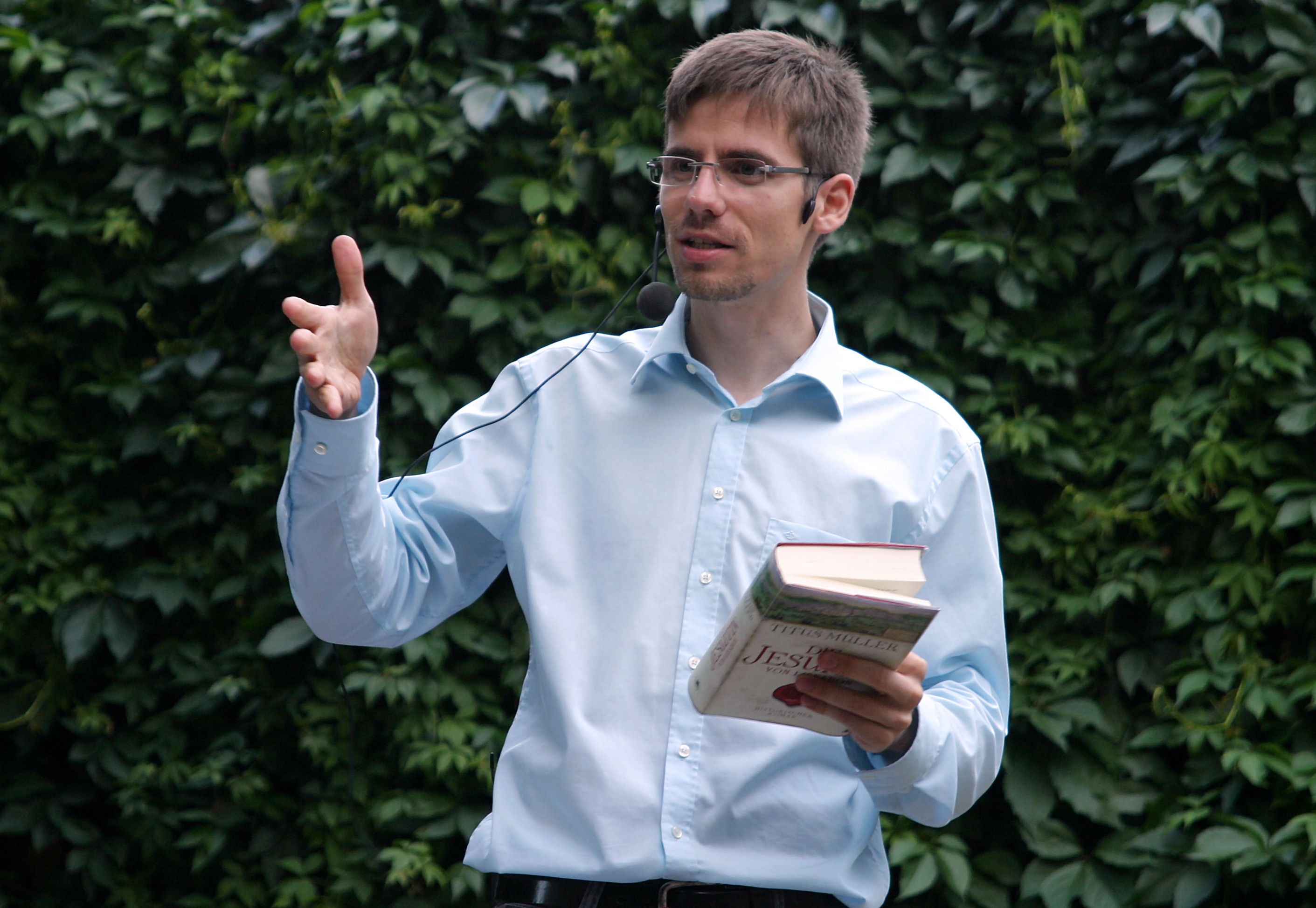 Titus Müller